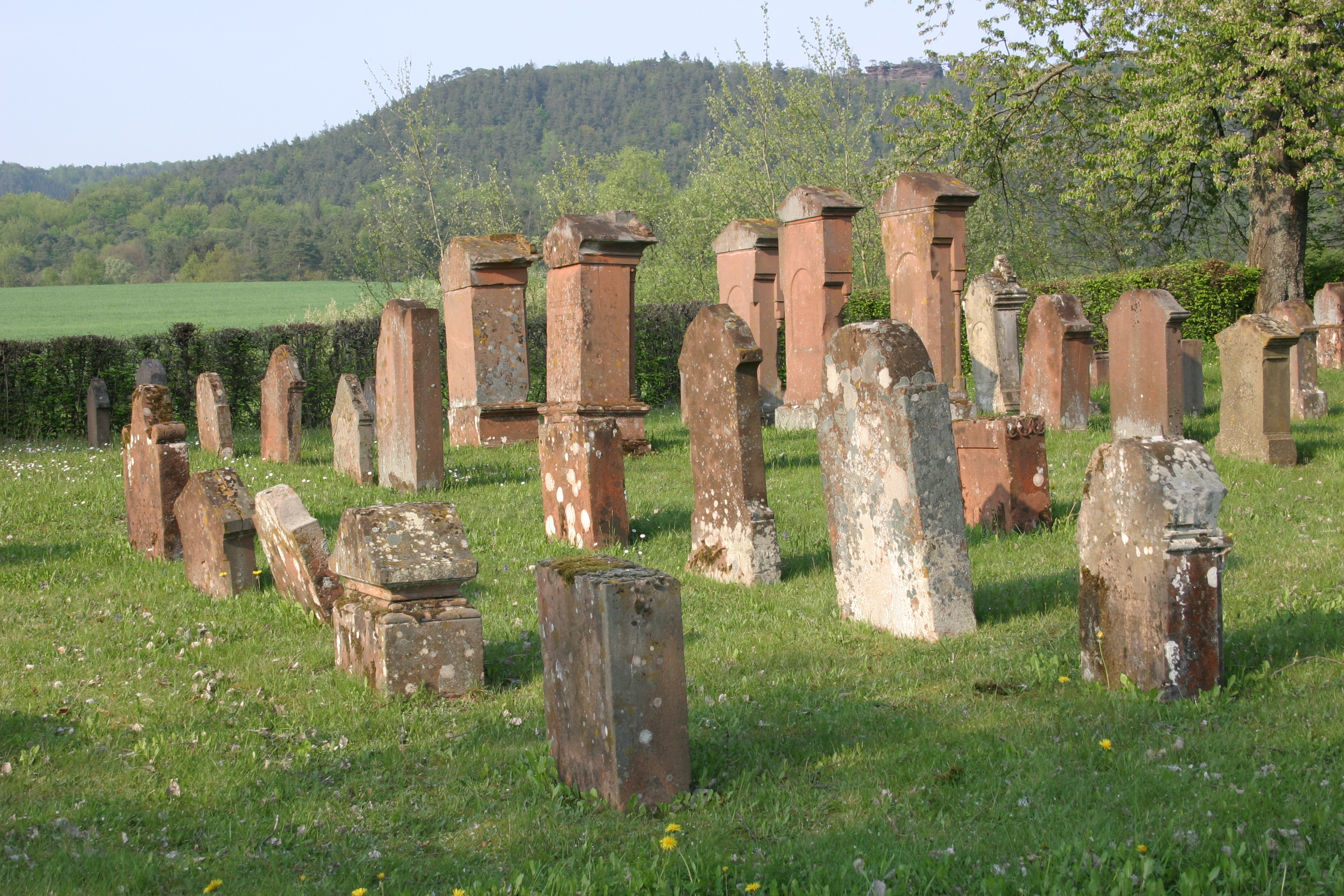 Jewish cemetery in Busenberg, Rhineland-Palatinate, Germany